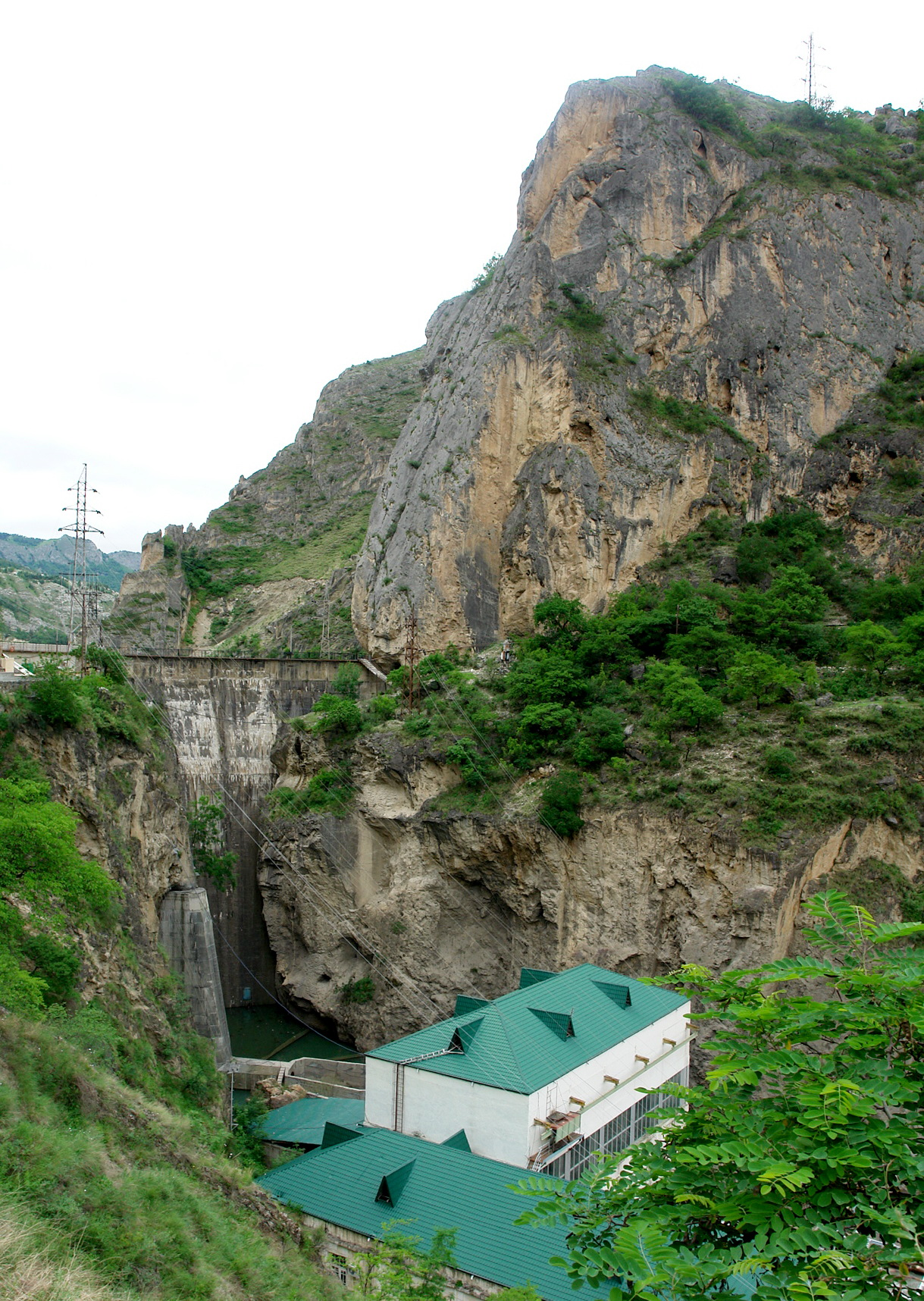 Gergebil HPP